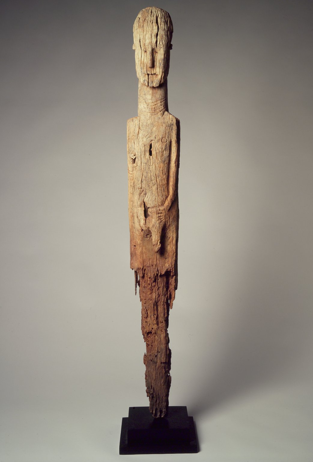 Waga Grave Marker